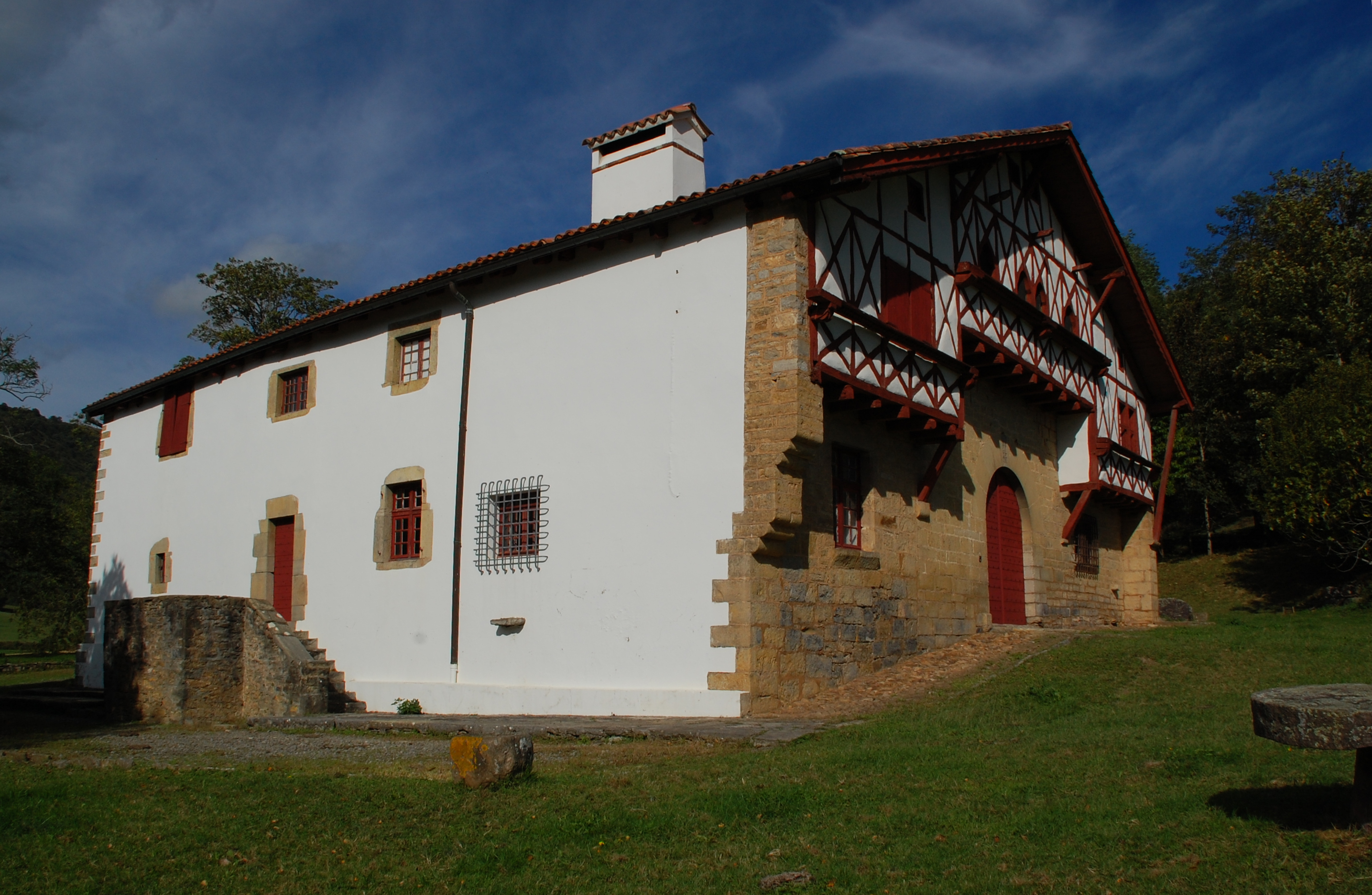 Etxepare.